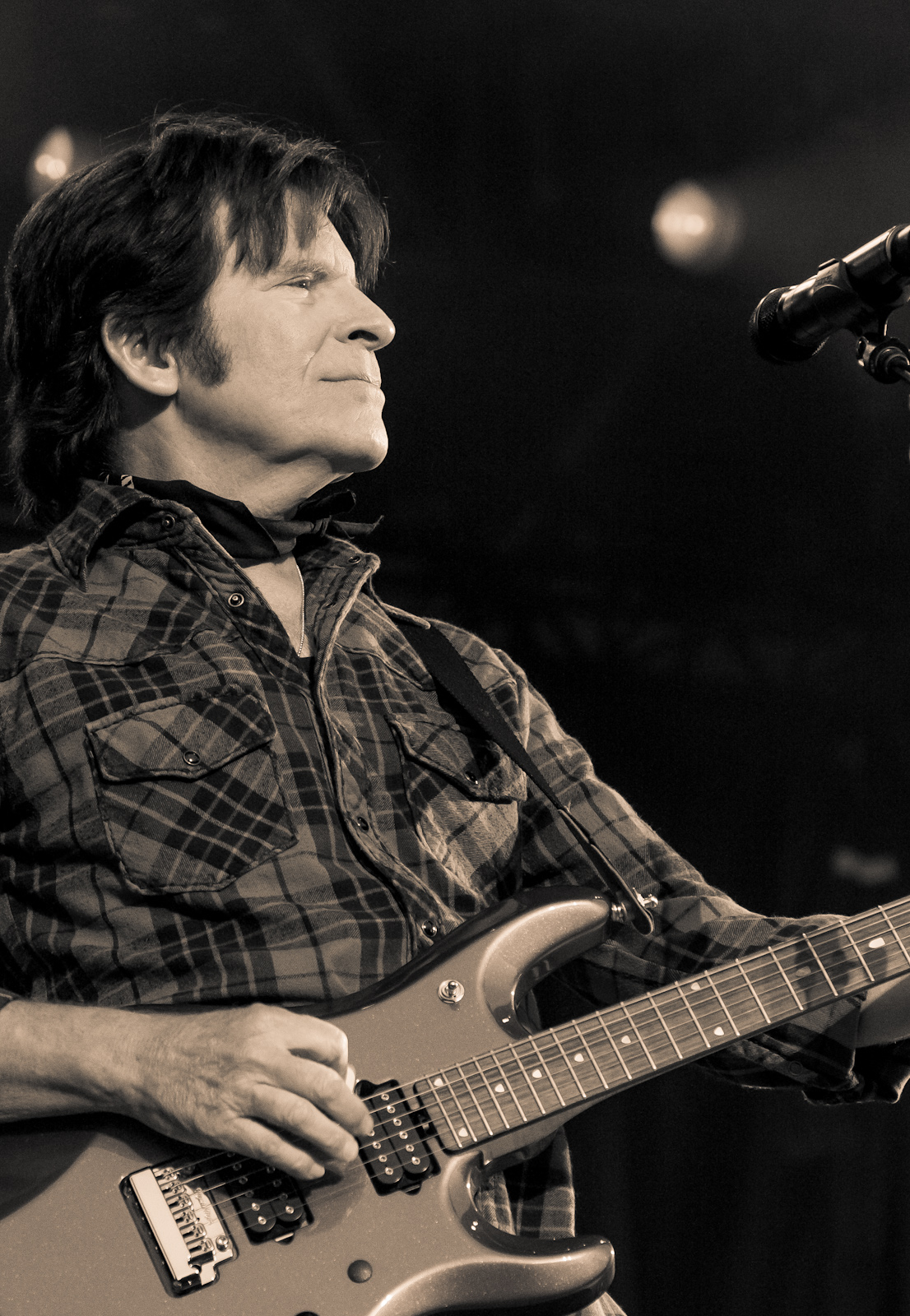 John Fogerty live at Odderøya Live 2012